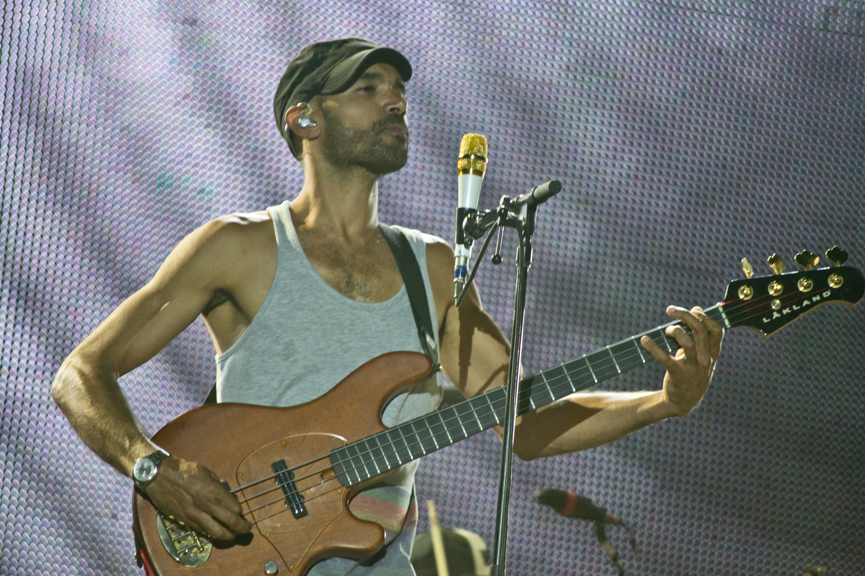 Incubus in Rock in Rio Madrid 2012.